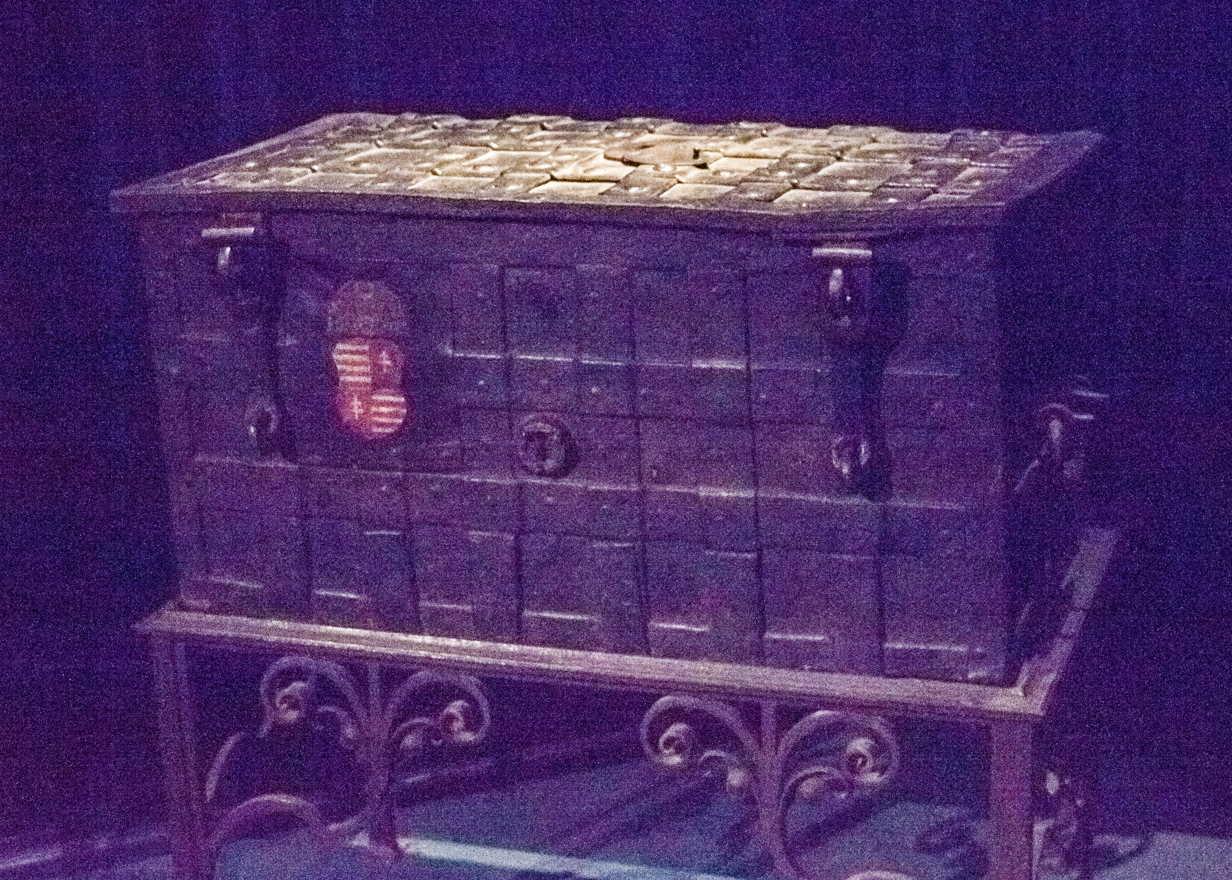 Chest of the crown, made in 1608 on the order of Matthias, Holy Roman Emperor